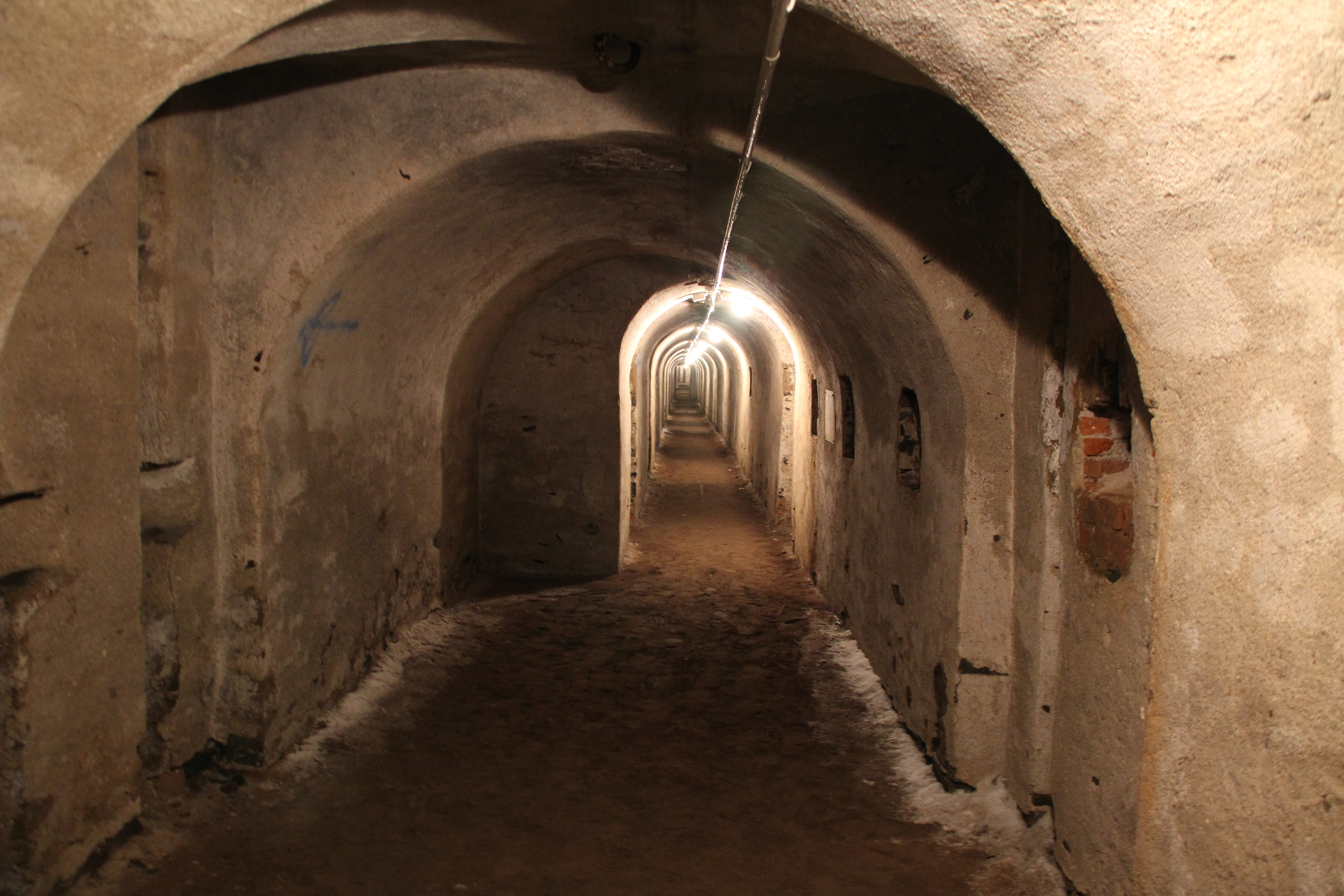 Neuendorfer Flesche in Koblenz